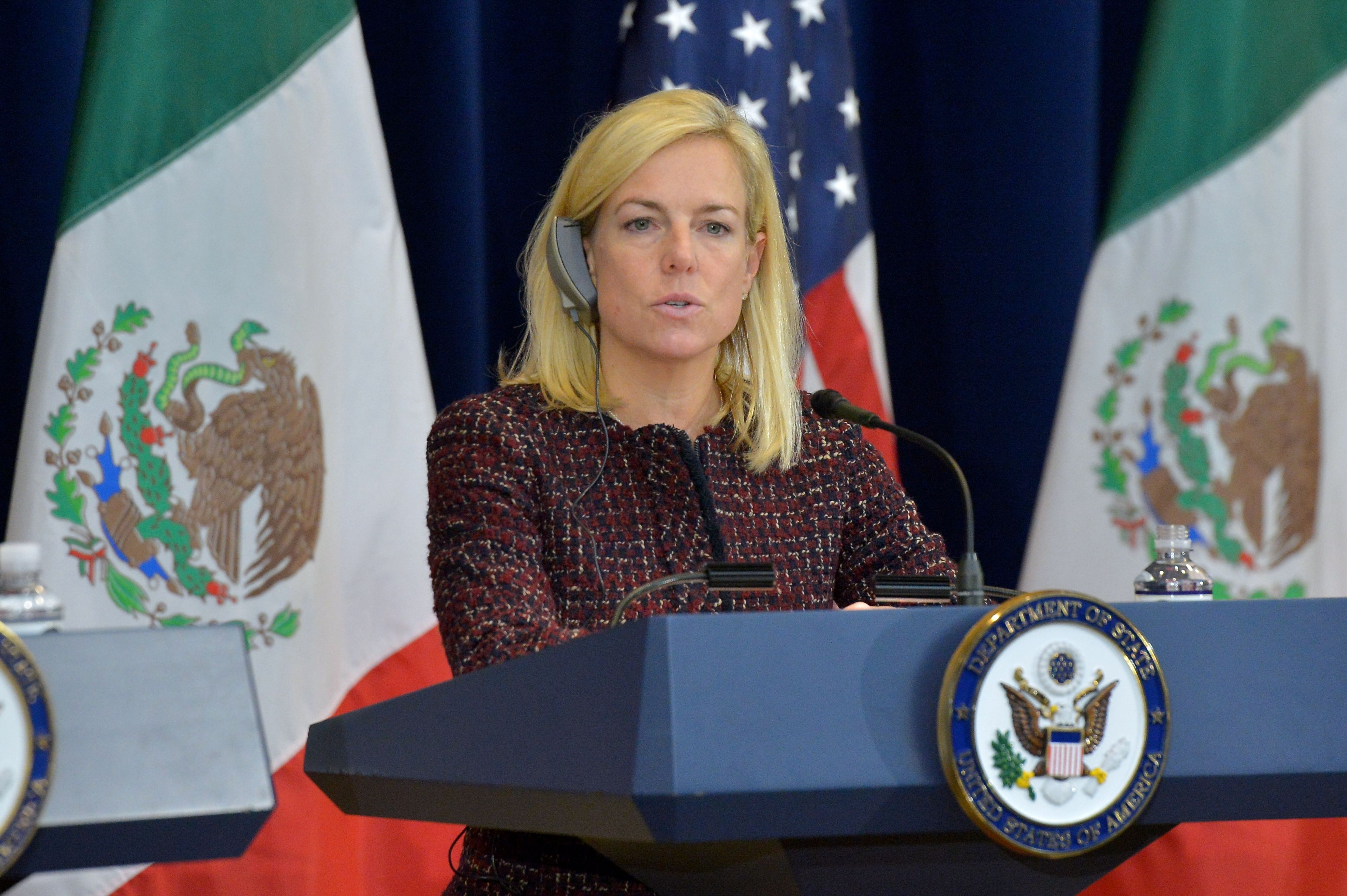 Secretary of Homeland Security Kirstjen M. Nielsen delivers remarks at the Second U.S.-Mexico Strategic Dialogue on Disrupting Transnational Criminal Organizations at the U.S. Department of State in Washington, D.C., on December 14, 2017. [State Department photo/ Public Domain]